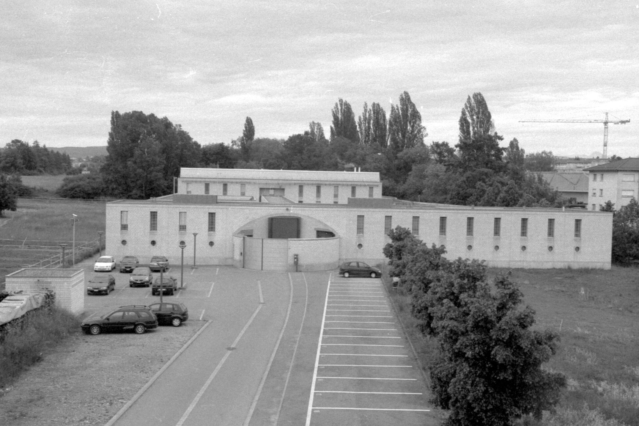 Prison La Tuilière in Lonay, Switzerland